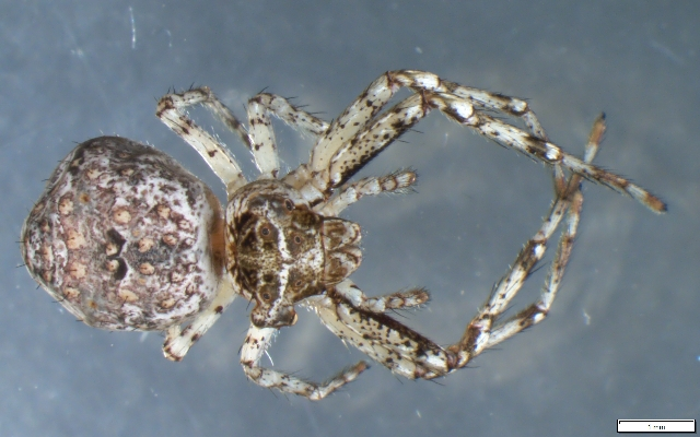 Pherecydes tuberculatus, Golden Gate Highlands National Park, South Africa